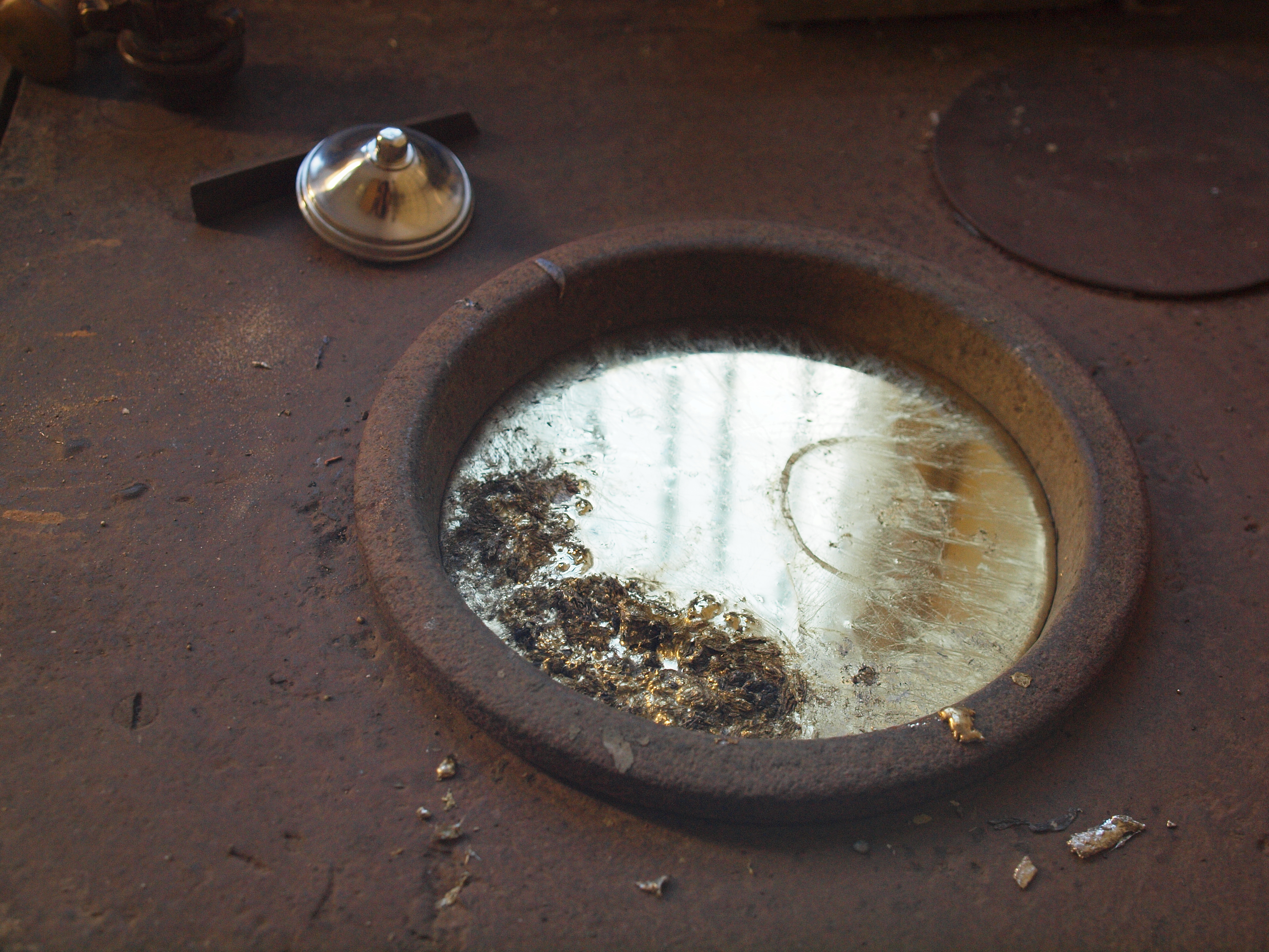 L. Mory tin pewtery